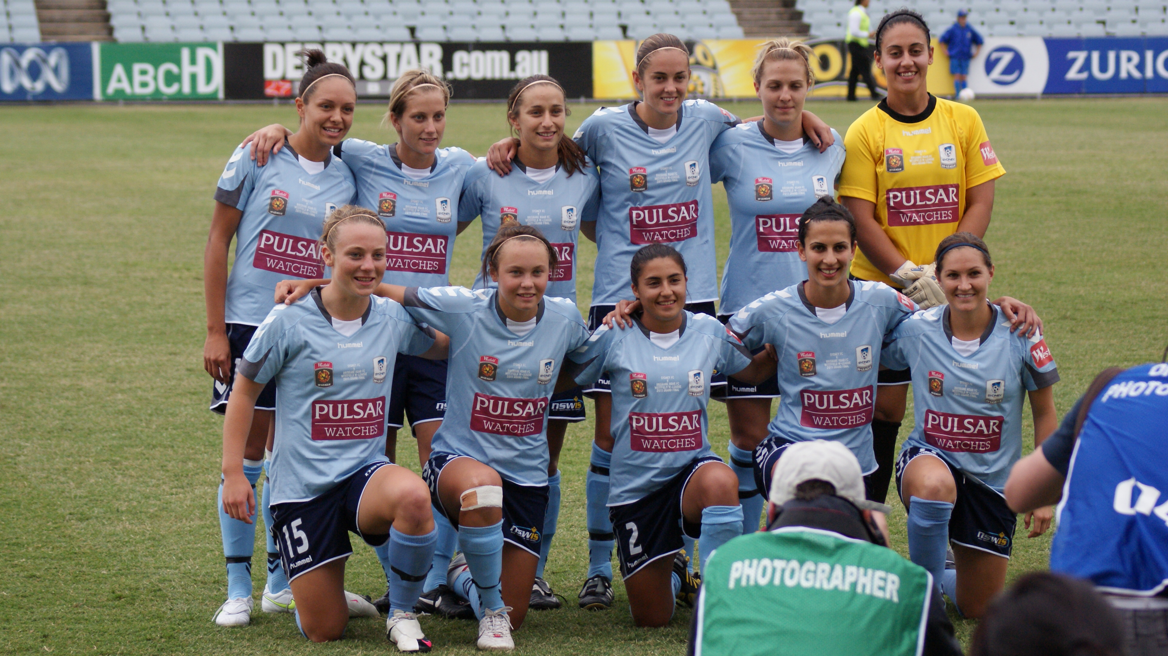 The Sydney FC Women Team just before the W-League 'Grand Final' (Season 2010/11)